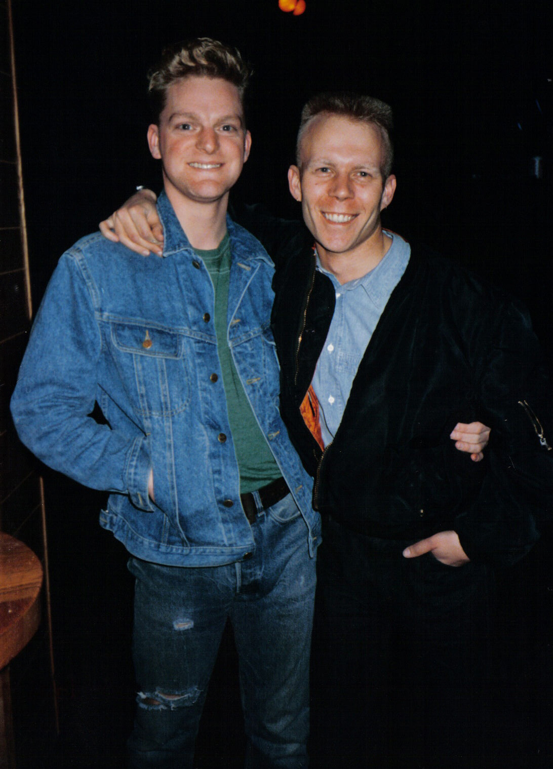 Subject: Andy Bell & Vince Clarke of Erasure at Wolfgang's (nightclub) - San Francisco, California, USA; Original 35mm photograph scanned